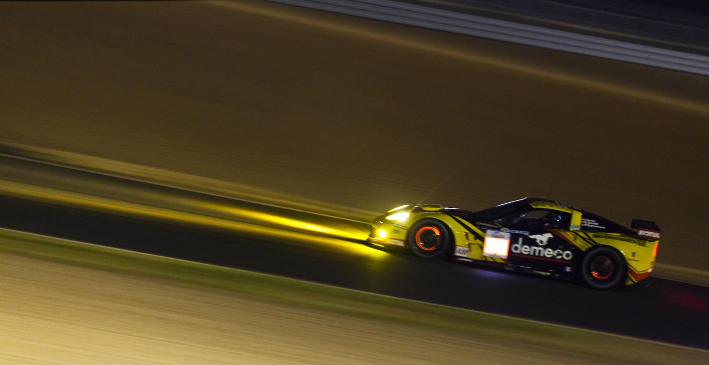 Le Mans 2011 - Qualifying 3 - Labre Competition Corvette C6-ZR1 #50 (GT-Am)